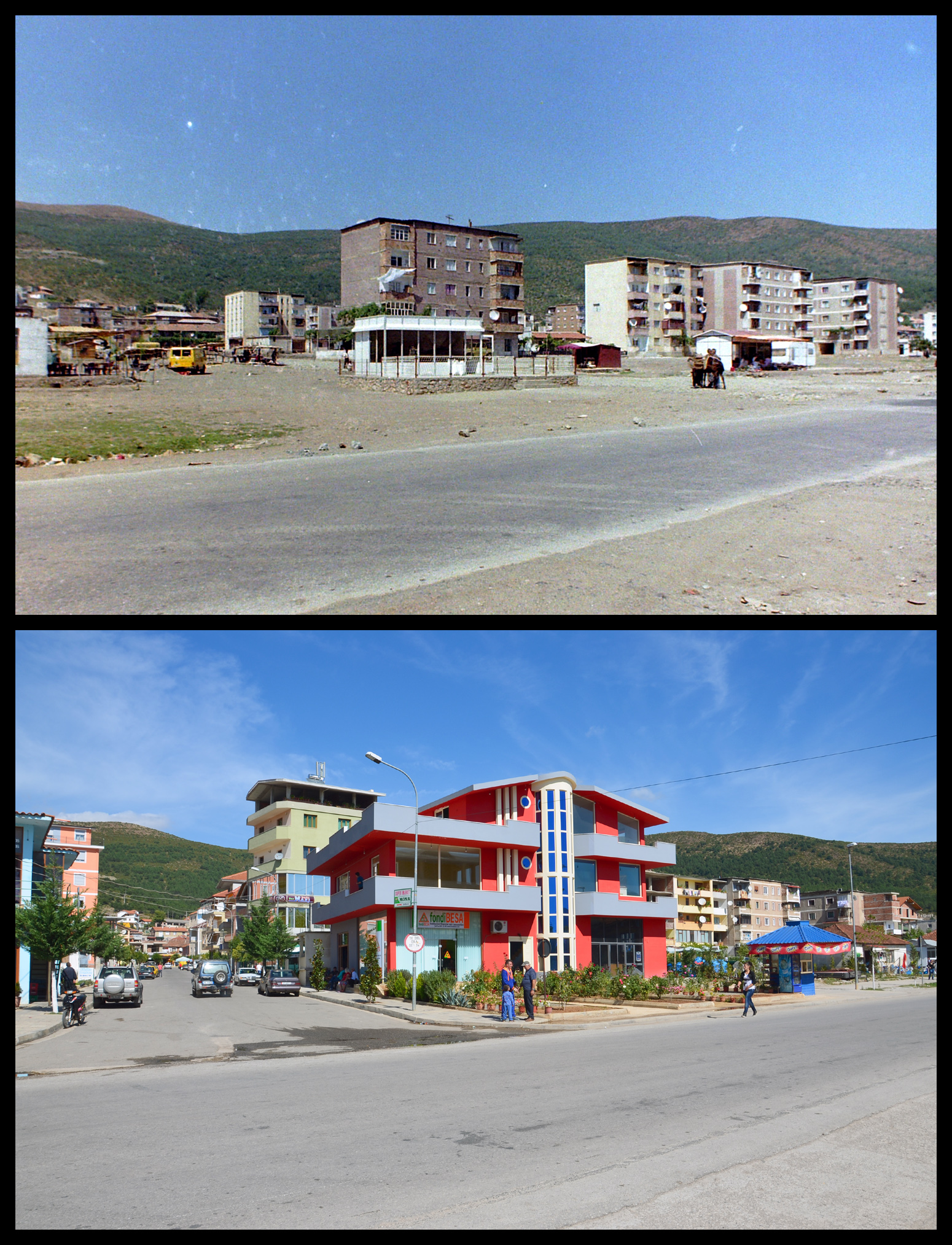 Prrenjas, Elbasan, Albania in 1995 vs 2013 from same place, same heading First picture taken in August 1995 Second in September 2013